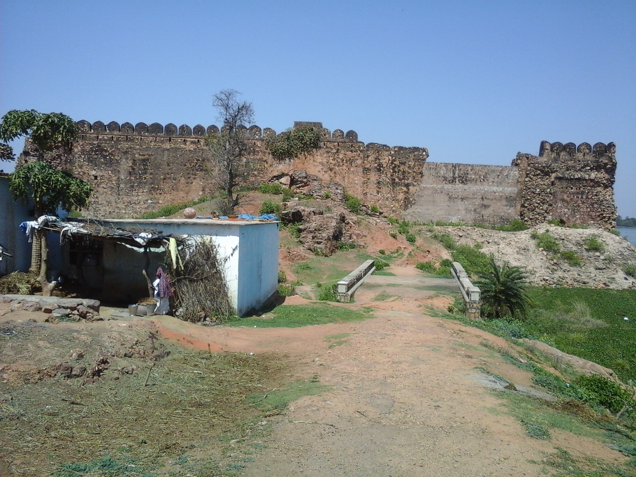 The picture of the Talbehat Fort in Talbehat(U.P.) was taken from the side from my own camera while visiting the fort on 16th March, 2014.